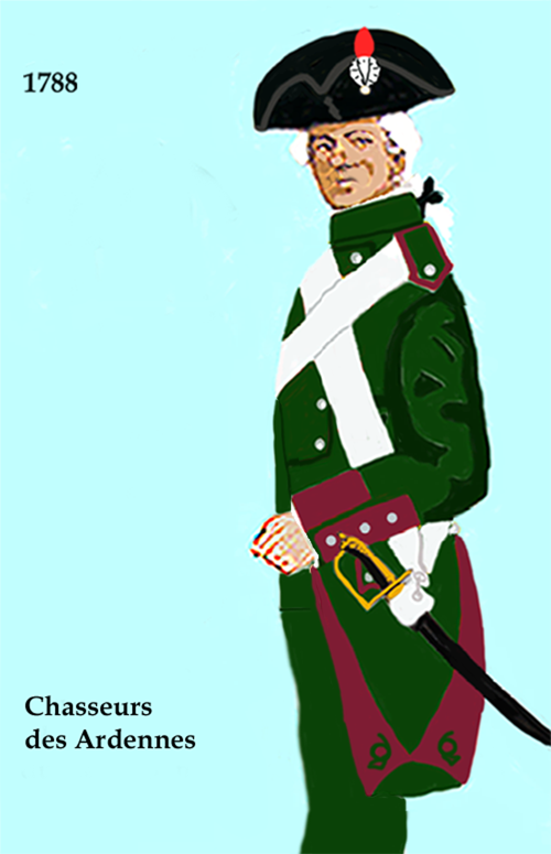 Uniforms of the french rifles of foot in 1788